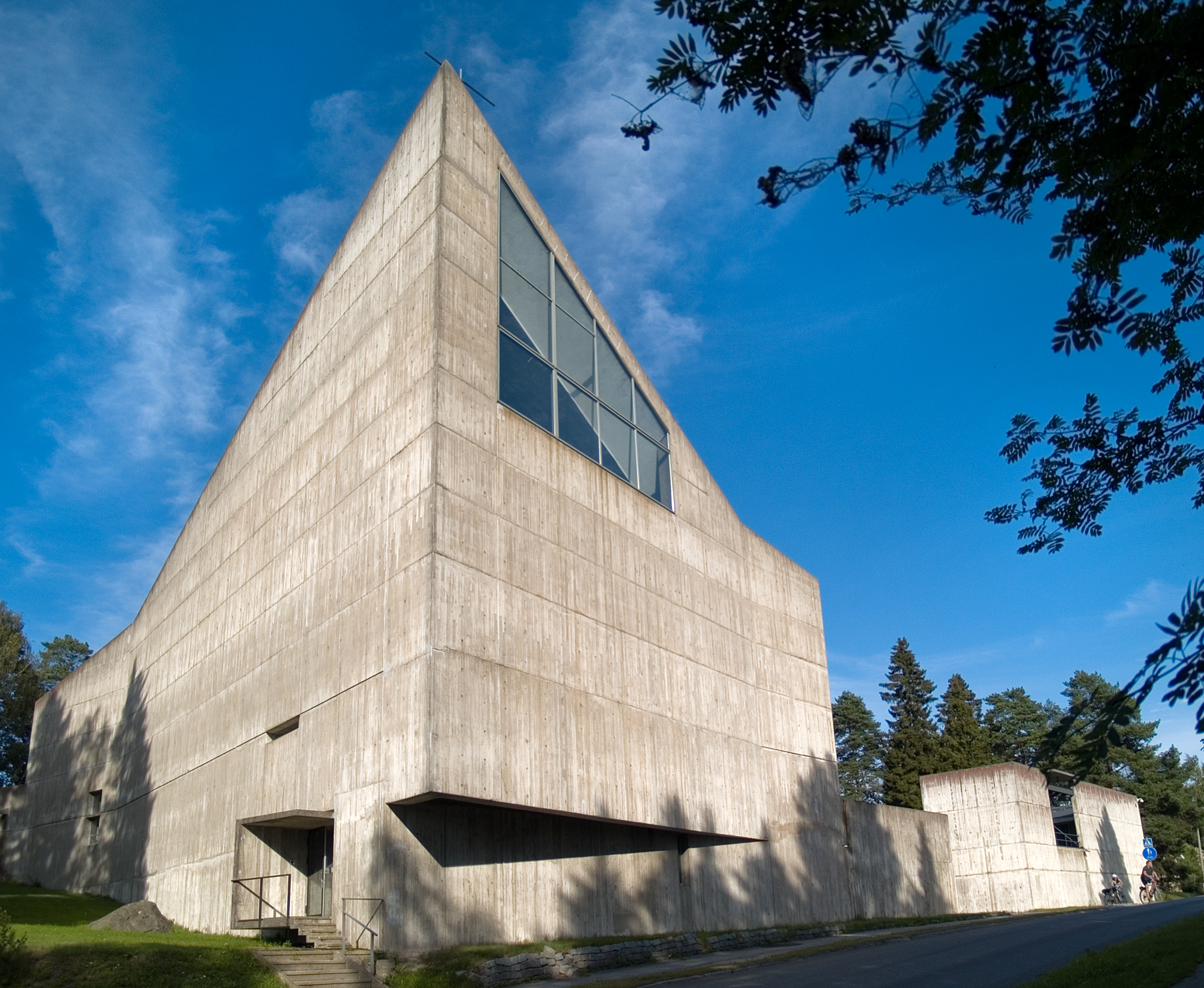 Huutoniemi Lutheran Church in Vaasa, Finland, designed by architect Aarno Ruusuvuori. made of raw concrete, and completed in 1964.